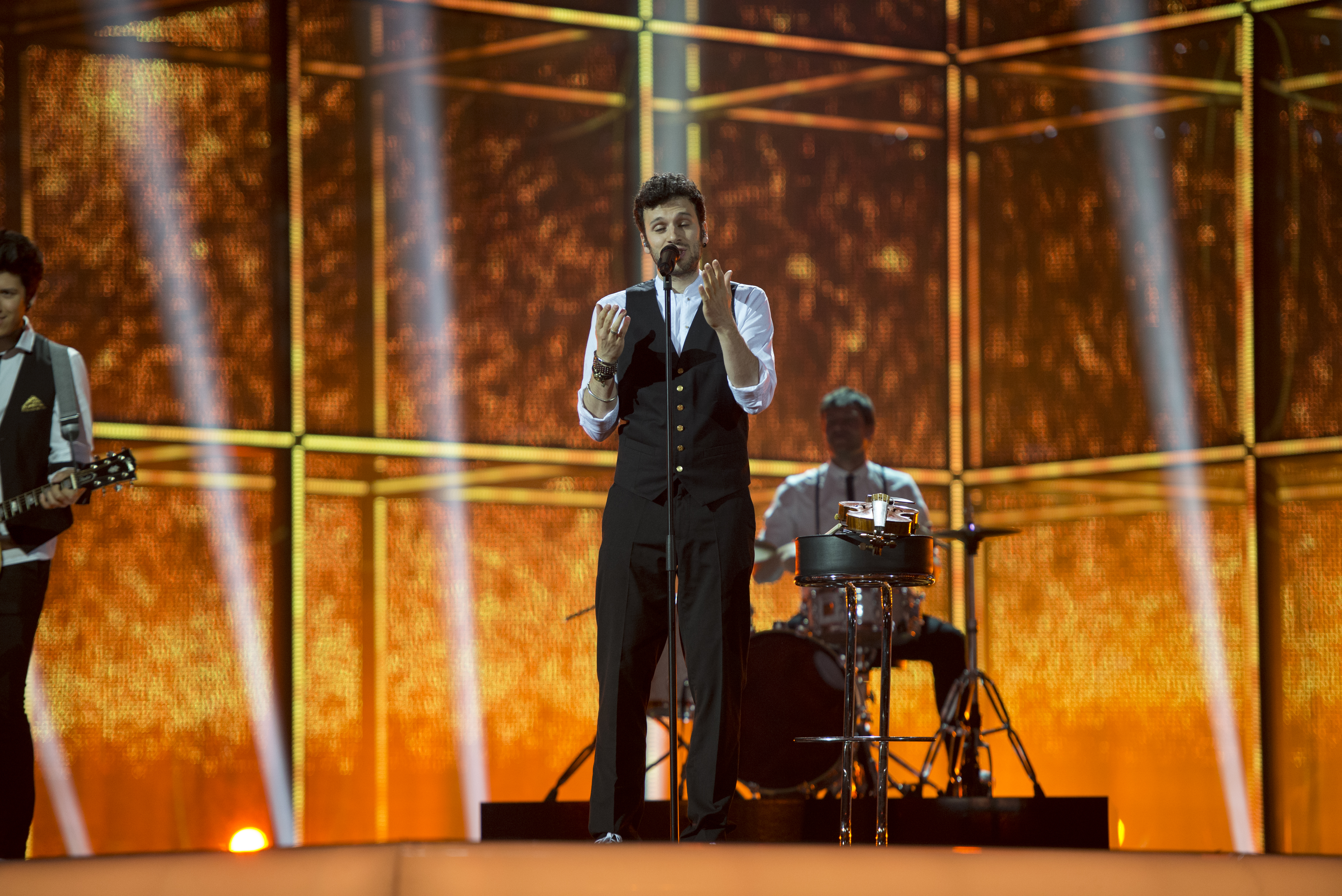 Sebalter representing Switzerland with the song "Hunter of Stars" during the first dress rehearsal of the second semi final of the Eurovision Song Contest 2014 Copenhagen. (Help translate this text)